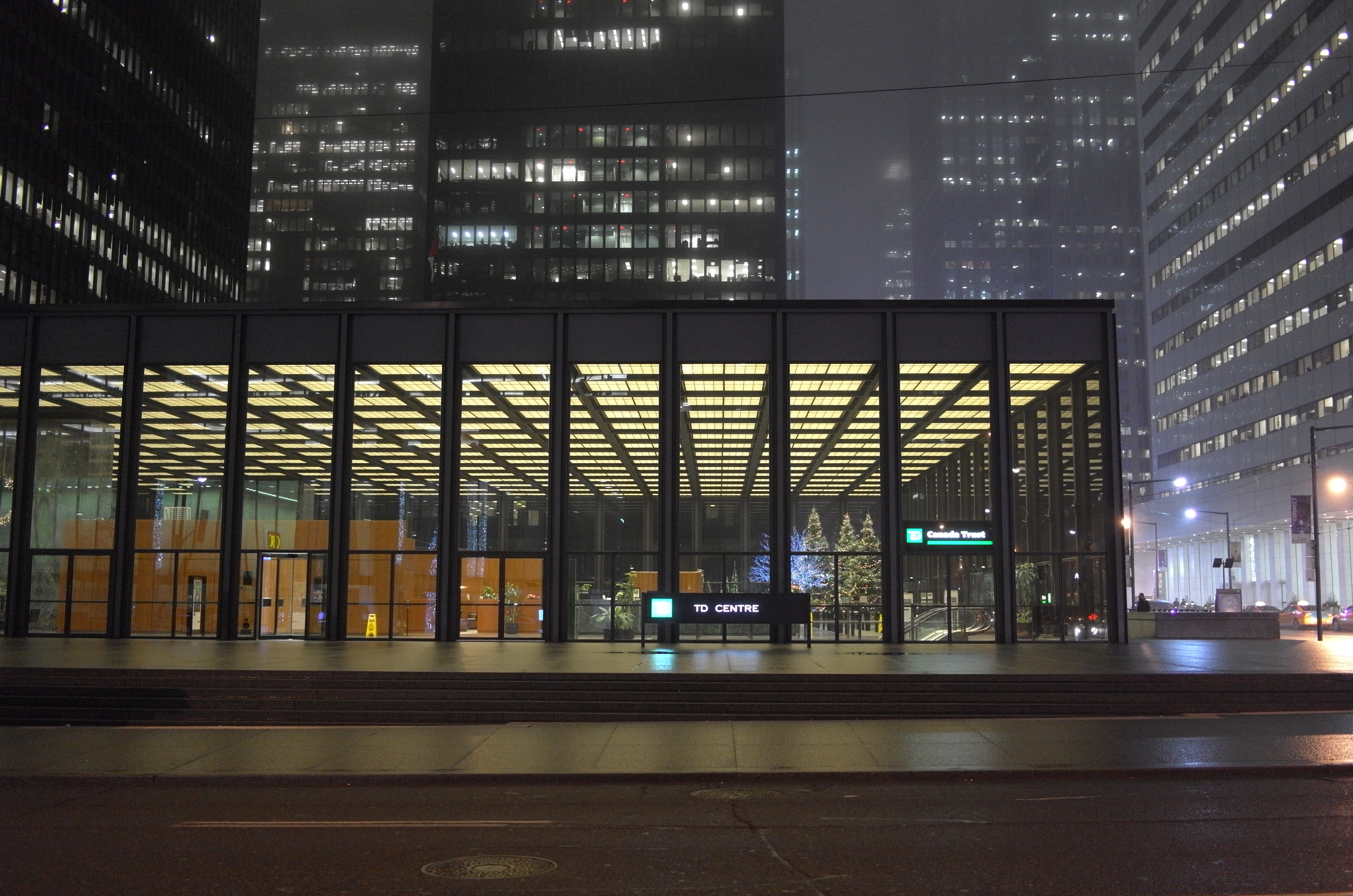 TD Centre's banking pavillion Bay Street side